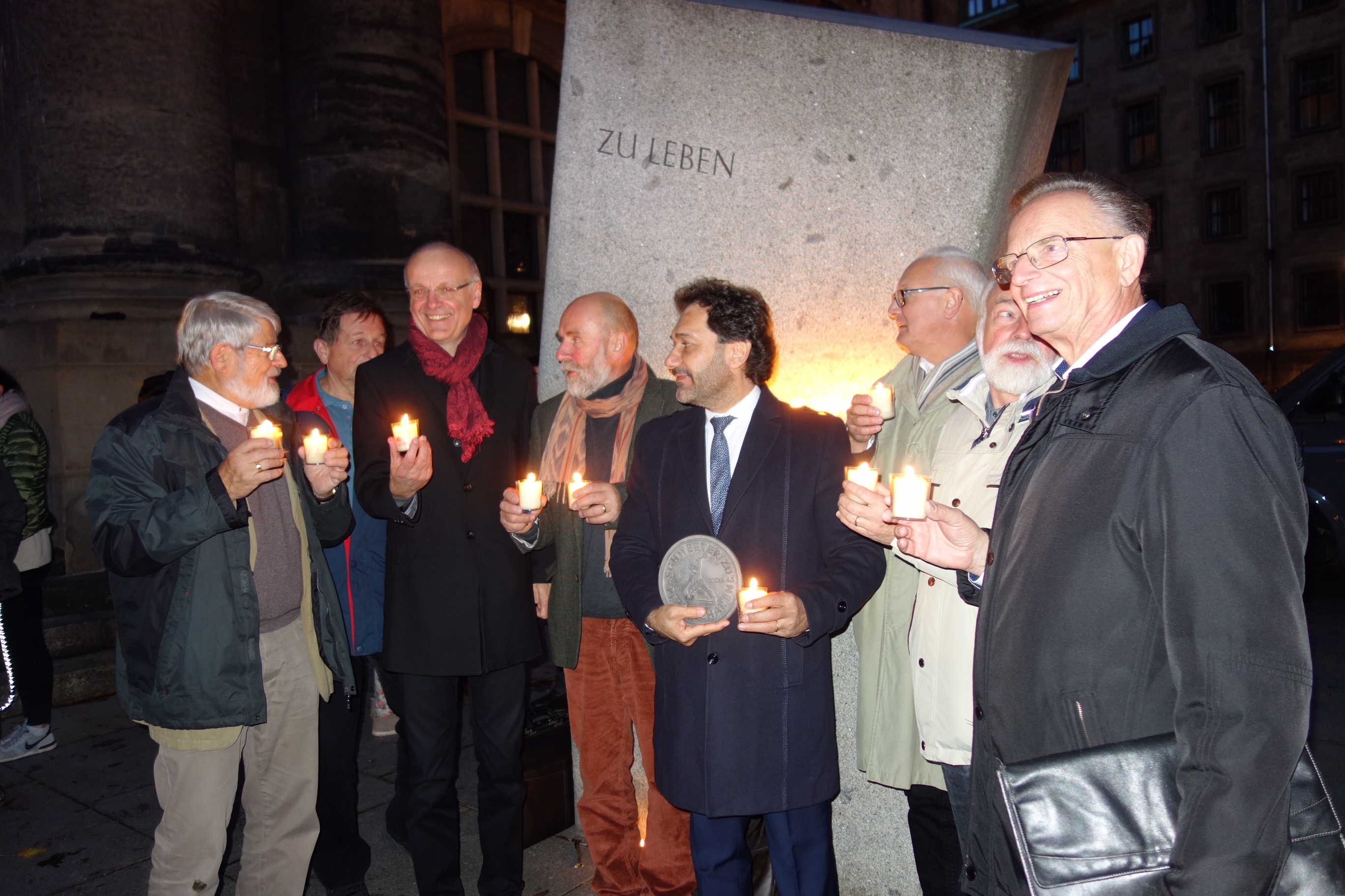 Haroutioun Selimian receives “Swords into Plowshare” award